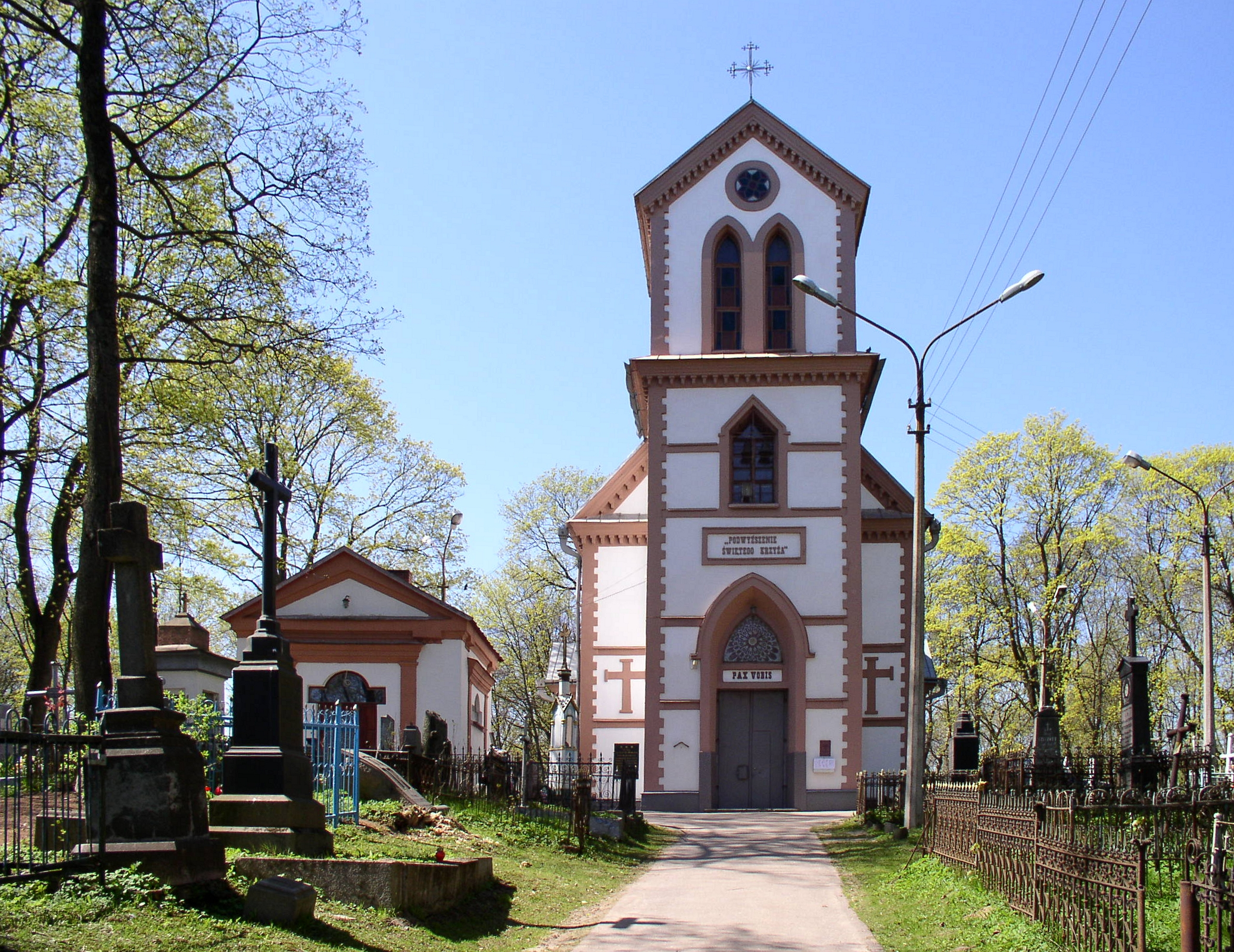 Church of the Exaltation of the Holy Cross. Calvary cemetery. Minsk, Belarus.